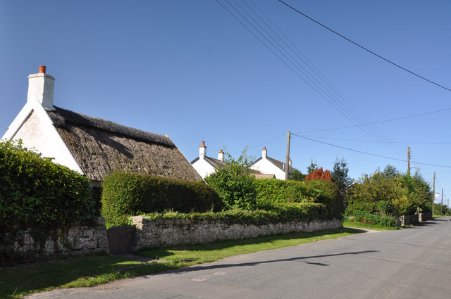 Myrtle Cottage, Higher End - St Athan An 18th/19th century thatched cottage, a rare example of its kind in the area. Records show that to the rear of the cottage there is a smalle outbuilding that was, at one time, the village cobblers shop.